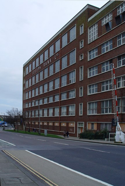 Joseph Rank Ltd., Hull There has always been profit in the turning of grain into flour, and the size of buildings often reflects the stature of their owners.